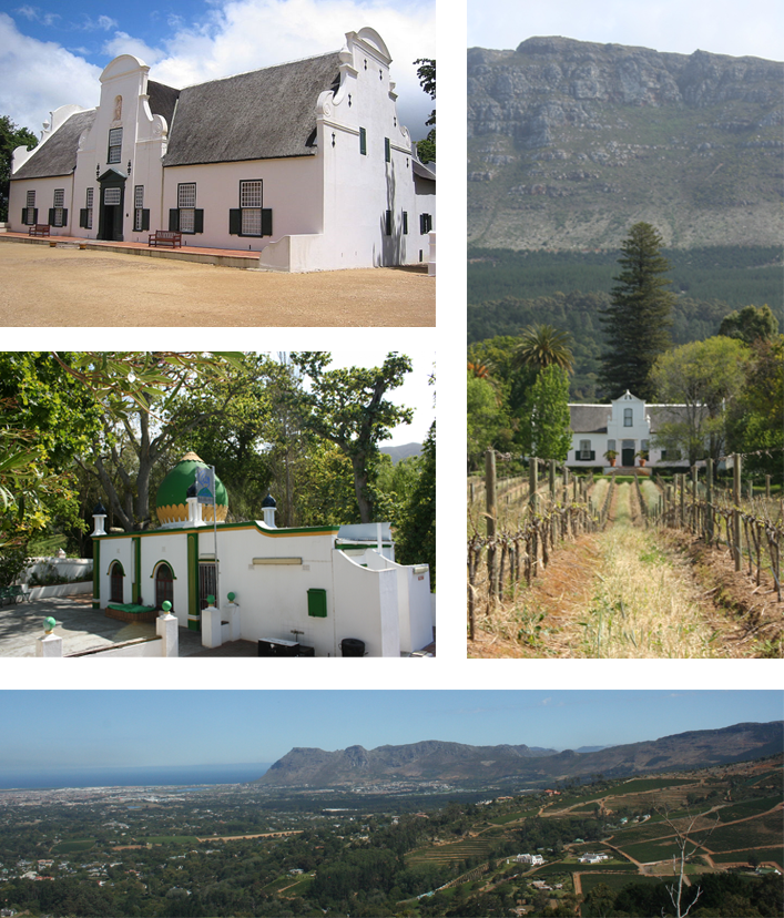 A compilation of images of Constantia in Cape Town. Top left: Groot Constantia (by Tjeerd Wiersma). Middle left: The kramat of Sheik Abdurachman Matebe Shah in Klien Constantia. Top right: The Cape Dutch homestead at Buitenverwachting. Bottom: a view of Constantia from Constantia Neck.